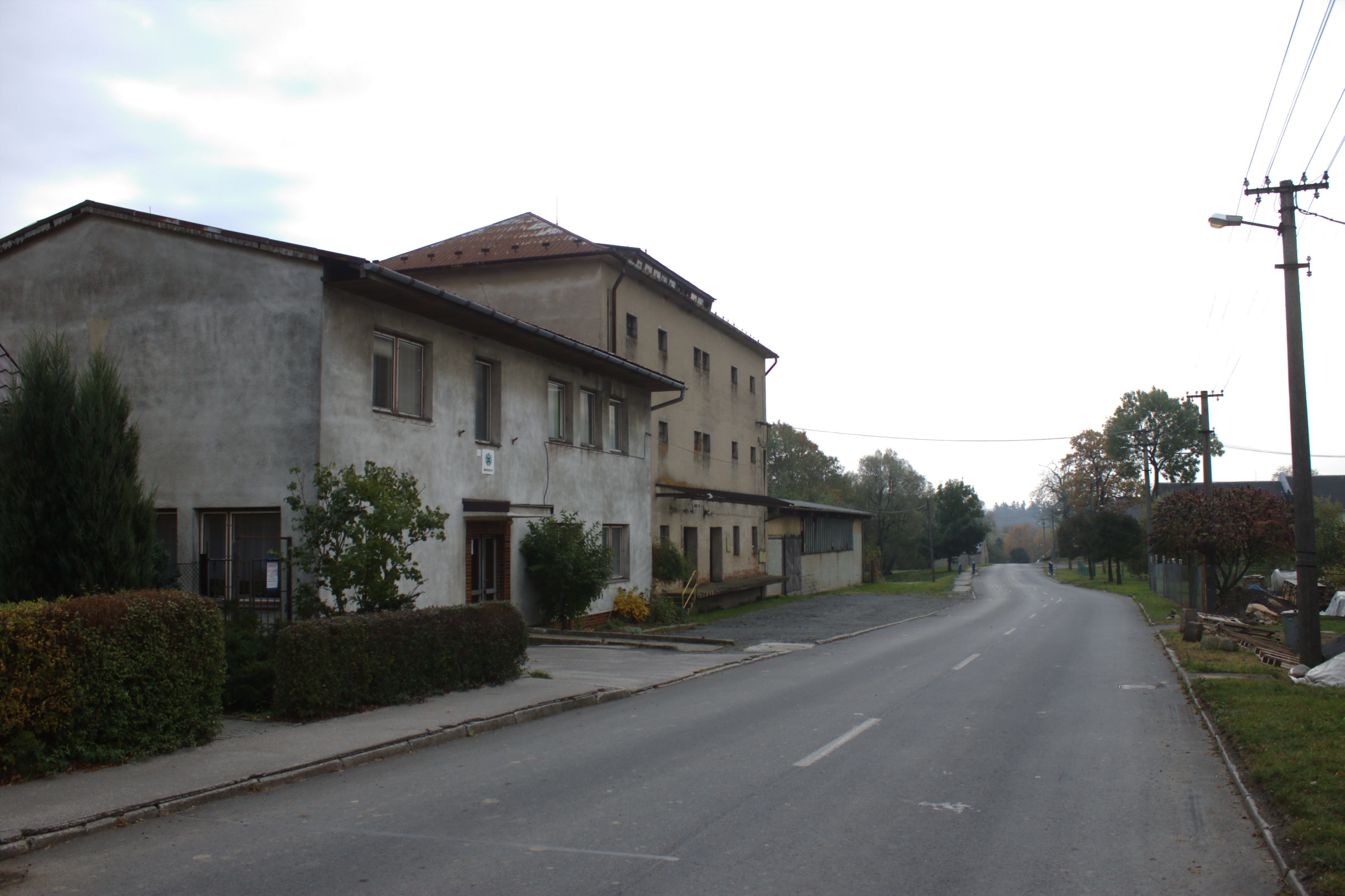 Buildings at the main road in southern Křišťanovice, Moravian-Silesian Region, CZ